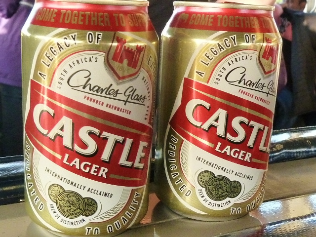 Two cans of Castle Lager. Picture taken in Kwalazulu-Natal, SA, 2014